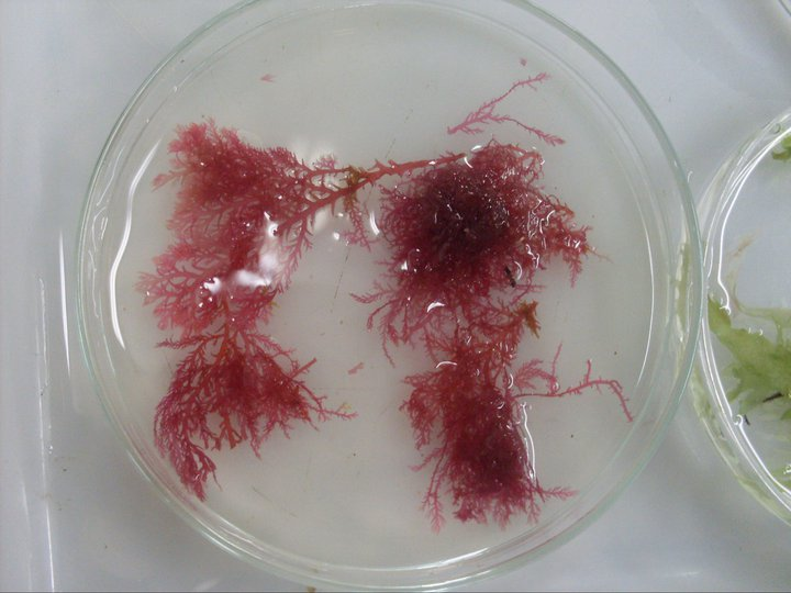 gender Ptilothamnion, phylum Rhodophyta